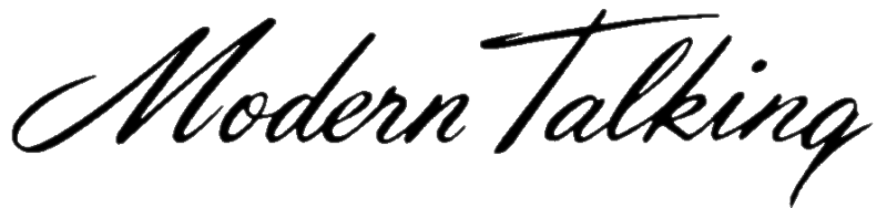 Original signature of Modern Talking